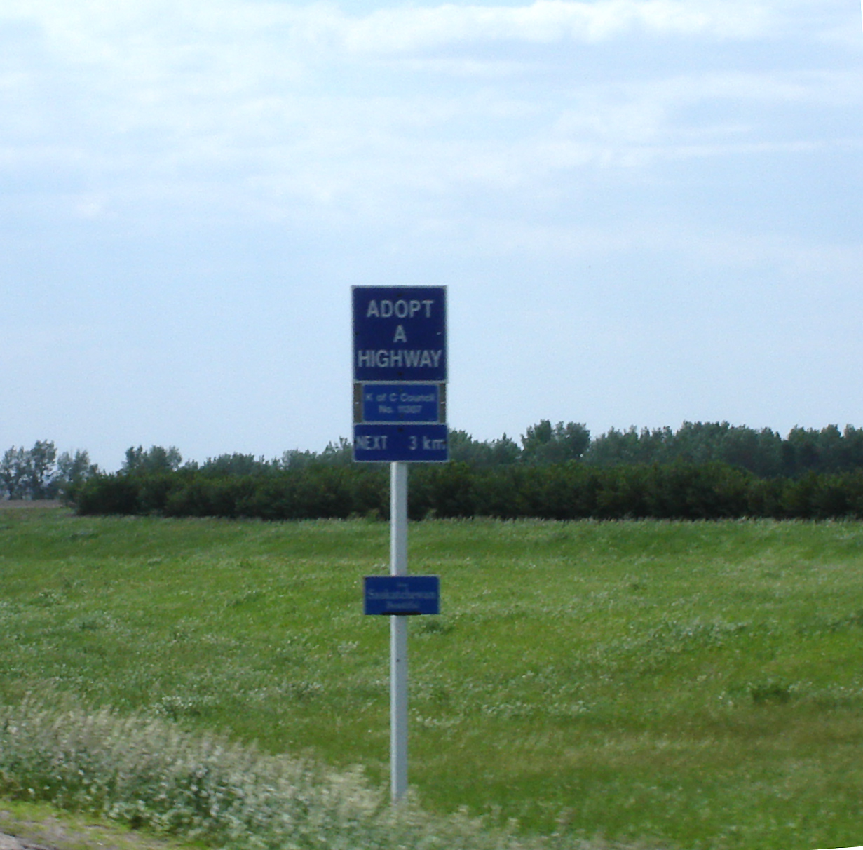 Adopt A Highway - K of C council No. - Next 3 km Road Signage Photo taken from Saskatchewan Highway 11, Louis Riel Trail travelling south from Saskatoon to Regina